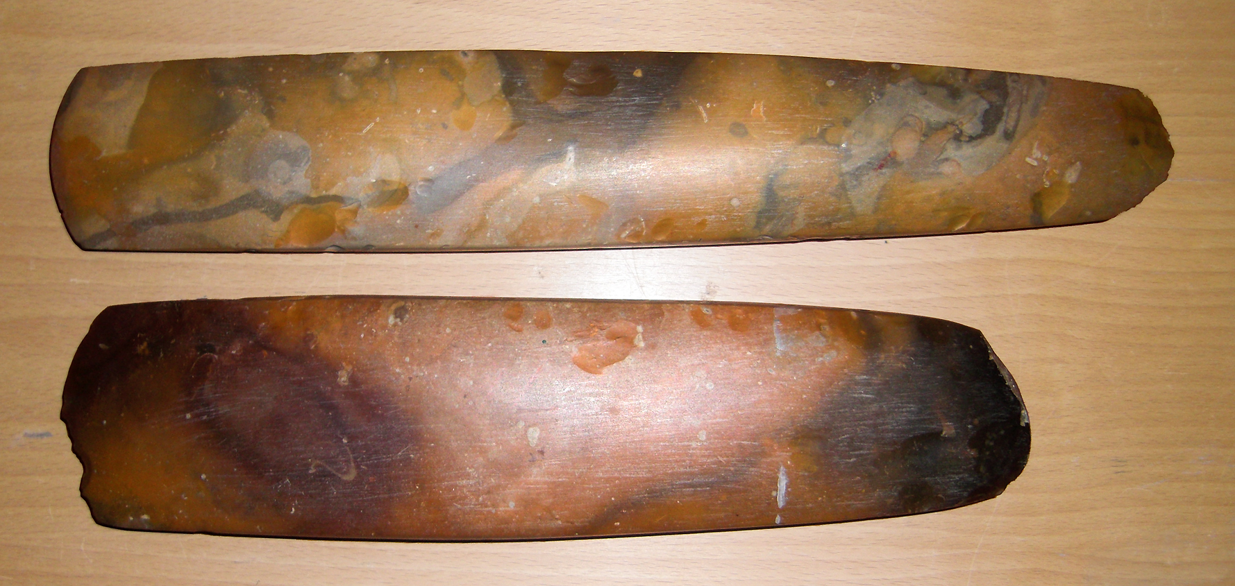 Two Neolithic axes of flint from Grolanda parish in Vilske hundred (formerly Frökind hundred), Falköpings municipality, former Skaraborg county, Västergötland, Sweden. They are both belonging to the Funnelbeaker culture during the early and middle Neolithic. The axe above has a length of 40.8 cm. The axe below has a length of 34.5 cm.